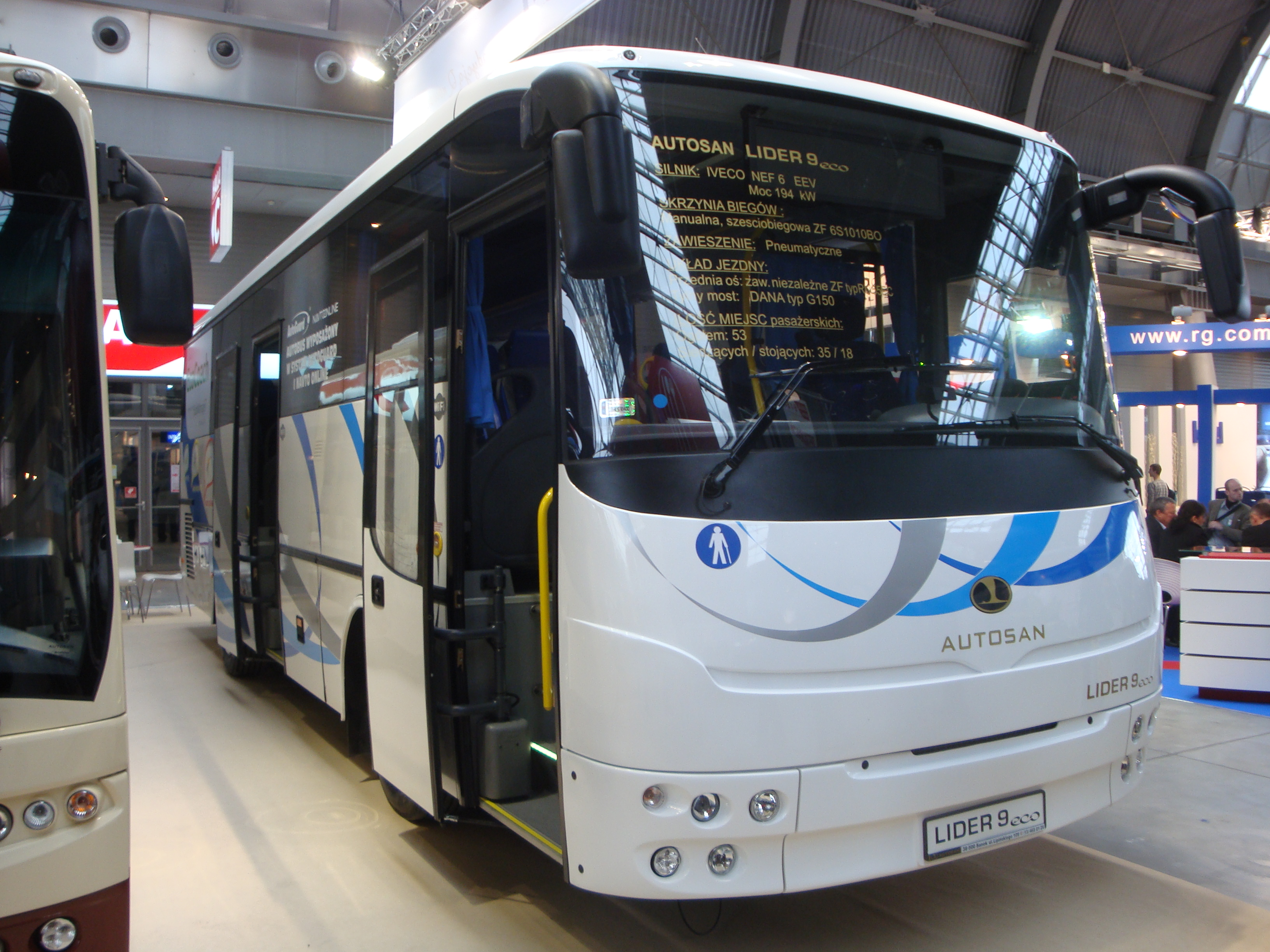 Autosan Lider9 eco bus in Kielce, Poland. Transexpo 2012.